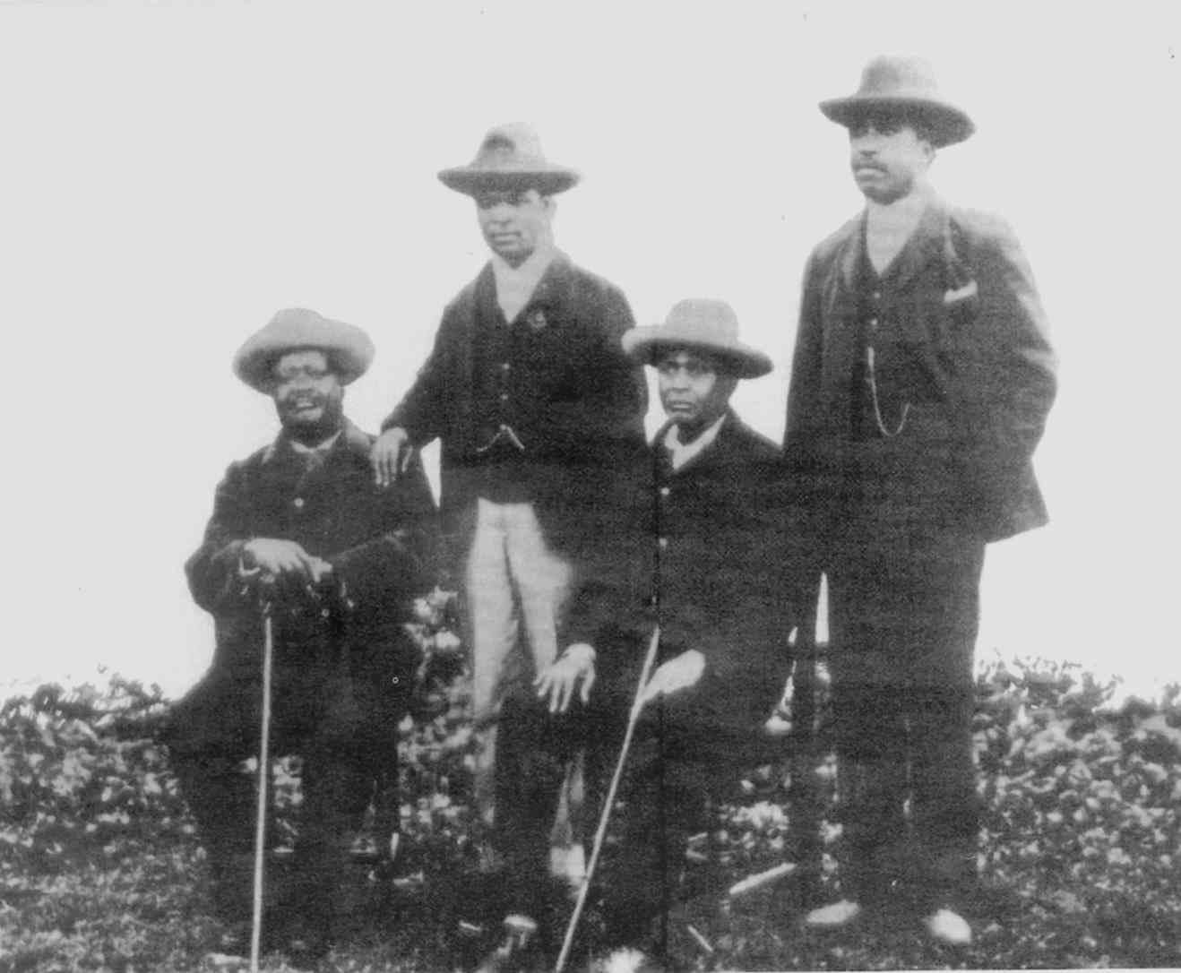 Gungunhana, last emperor of Gaza, Mozambique, captive of Portugal, in exile in Azores, seating by his sons: Godide (hand on father's shoulder), Molungo (seating) and Zixaxa (standing). The day of the baptism of the four. Angra do Heroísmo, Azores, Portugal.